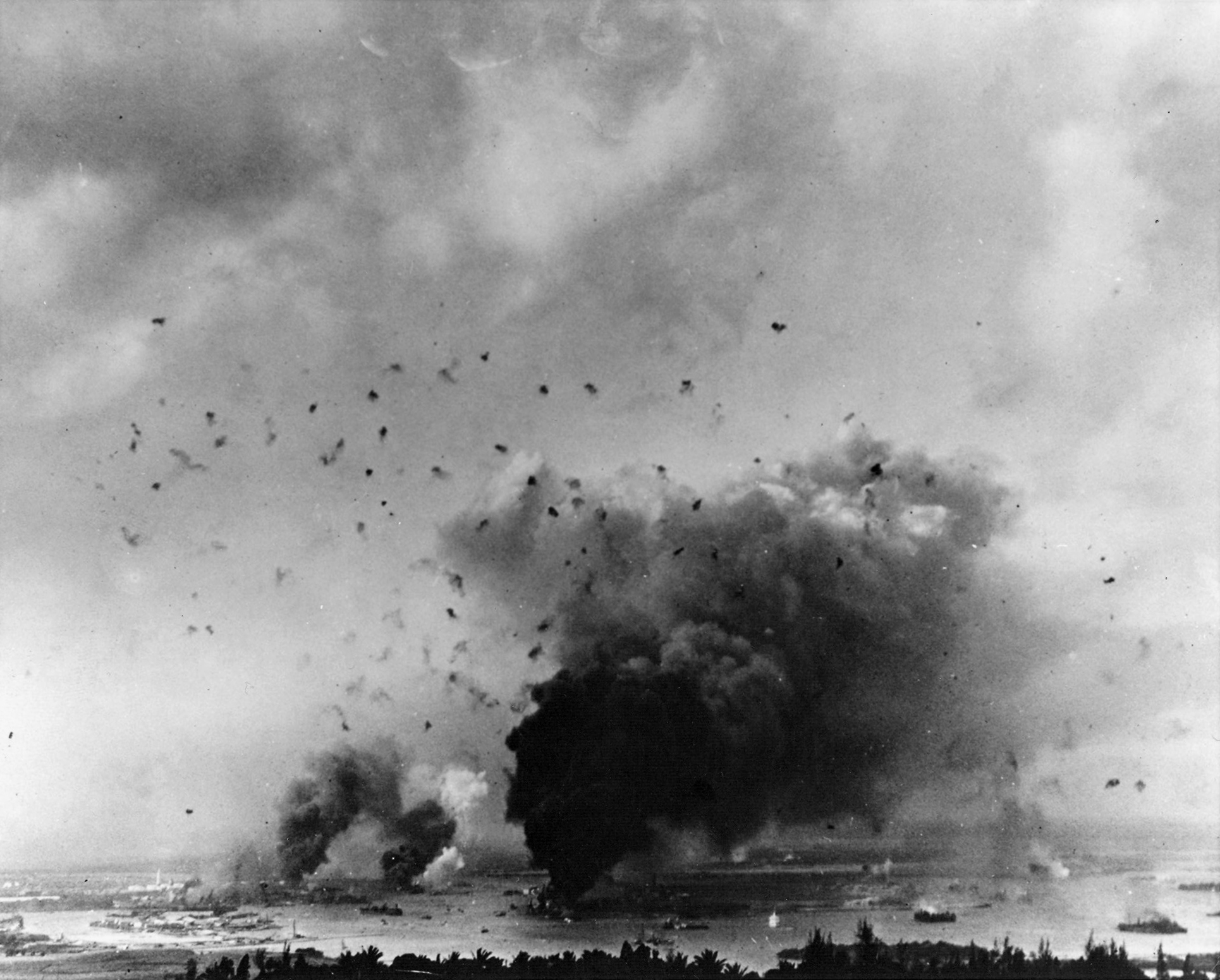 General view of Pearl Harbor during the Japanese attack on 7 December 1941.